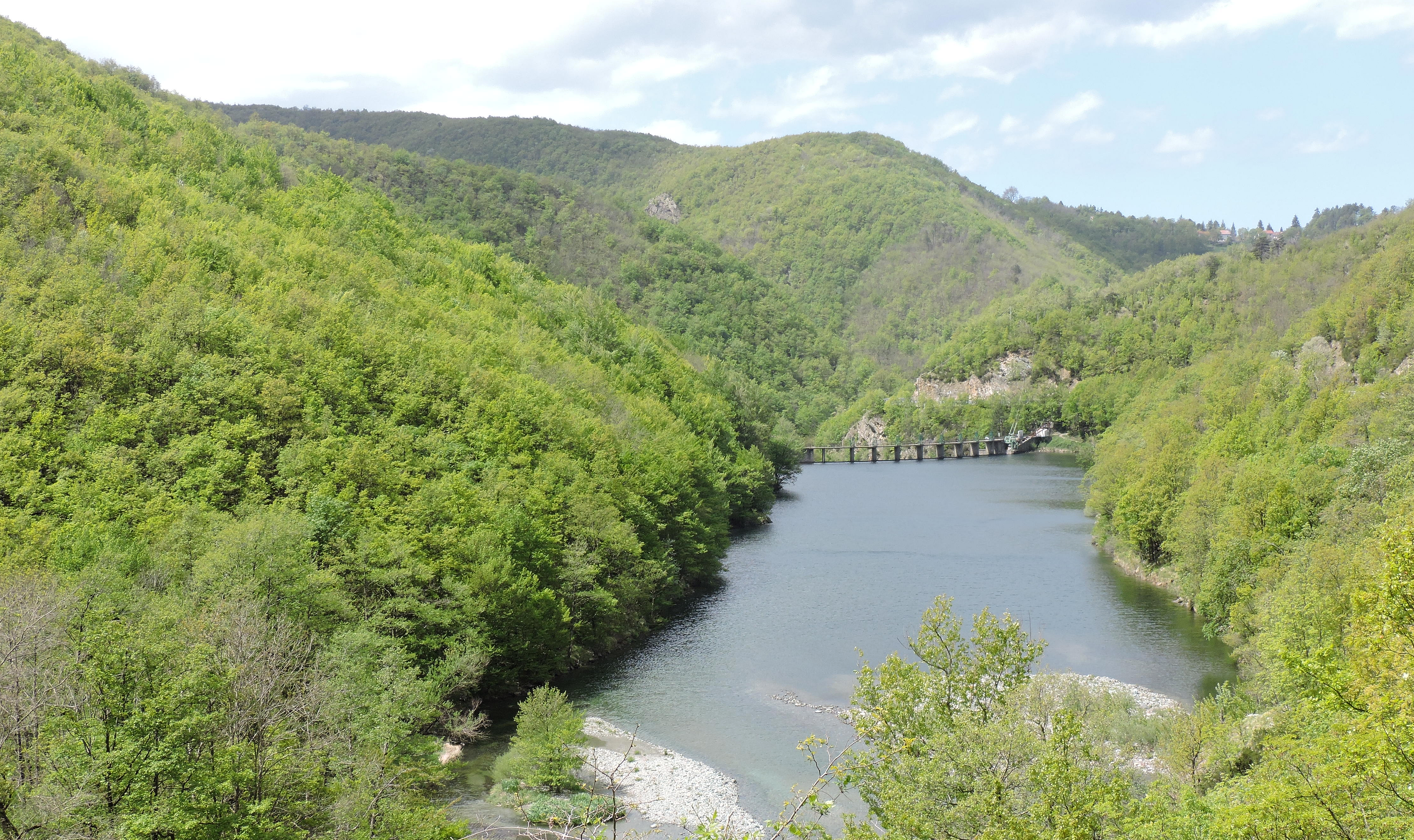 Lago dell'Antenna from provincial road nr.40 (Ligurian Apennine, Italy)